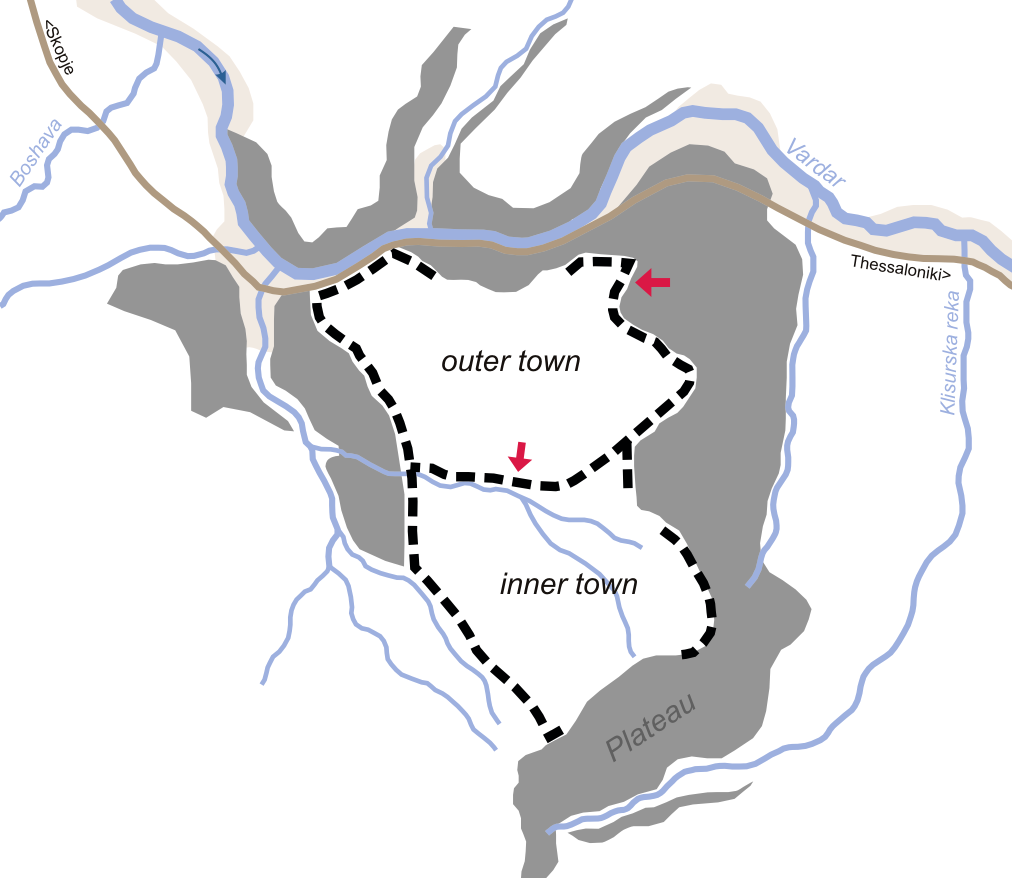 Plan of the medieval fortress Prosek, seat of the Bulgarian feudal lords Dobromir Chrysos and Strez.